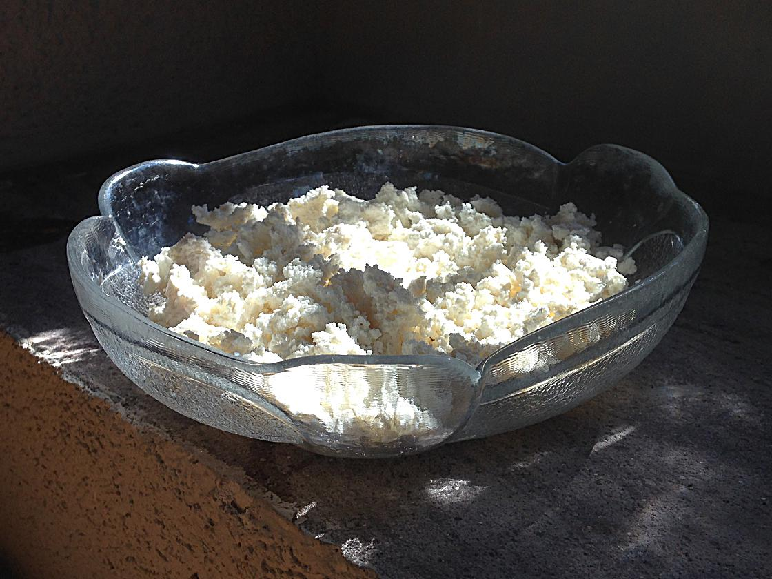 Lor, a Turkish whey cheese